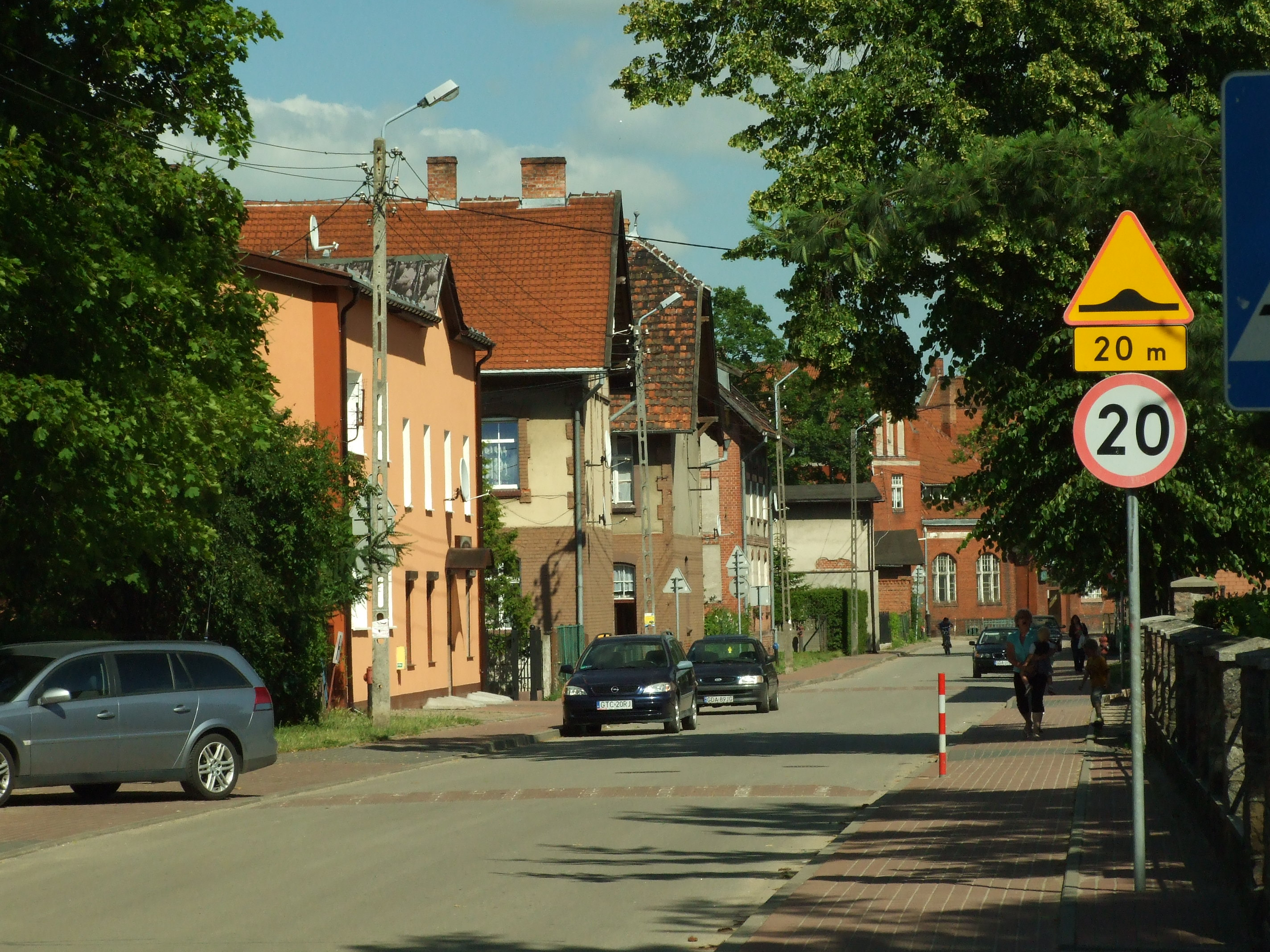 A street from train station (in the background) to the church in Pszczółki, Pomorskie voivodship, Poland